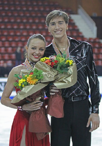 Ekaterina RIAZANOVA & Jonathan GUERREIRO during the ice dancing medal ceremony at the 2009 World Junior Championships.